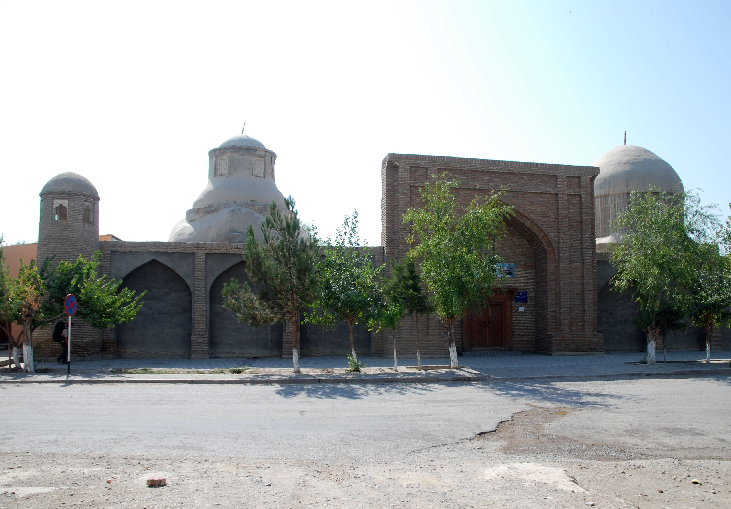 Konibodom, Madrasa Oym